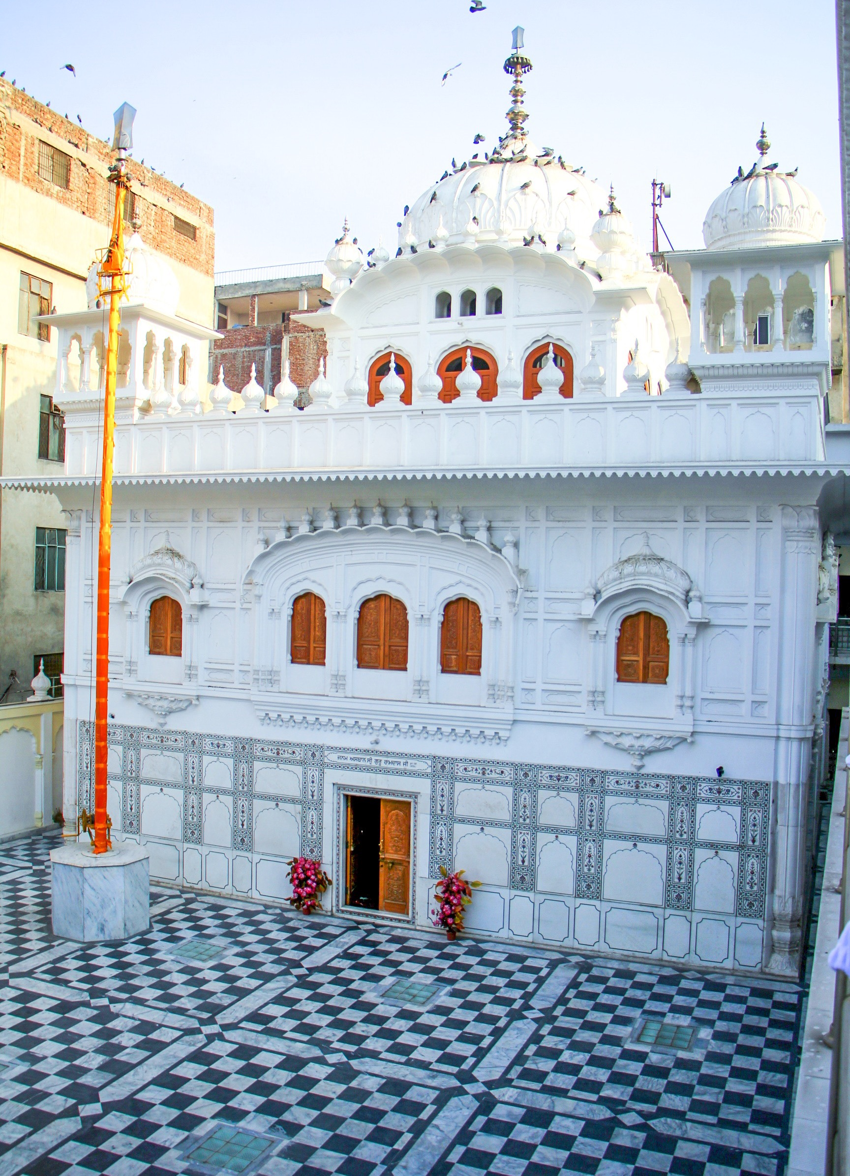 Gurudwara Arjun Ram This is a photo of a monument in Pakistan identified as the L-U-7